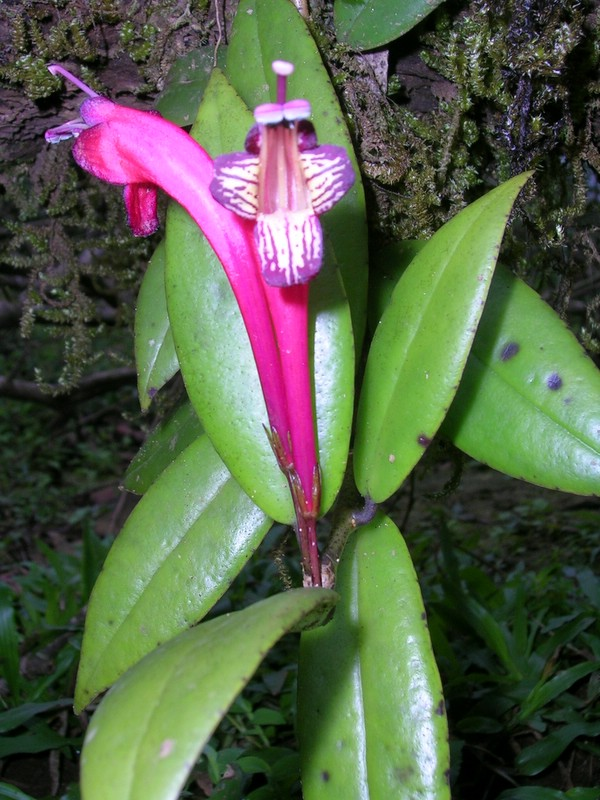 Aeschynanthus perrottetii, an epiphytic plant seen at at Talakaveri, Coorg, India